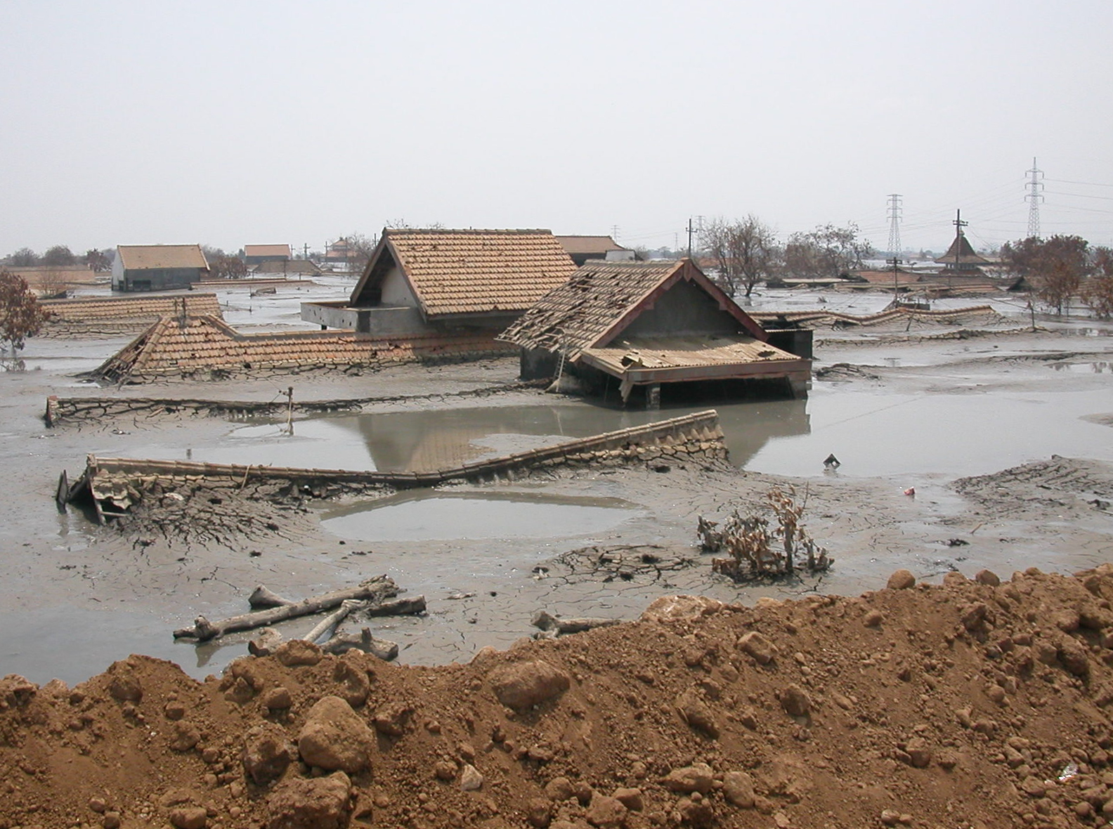 A home sunk by Sidoarjo mud flow. Taken by college friends.